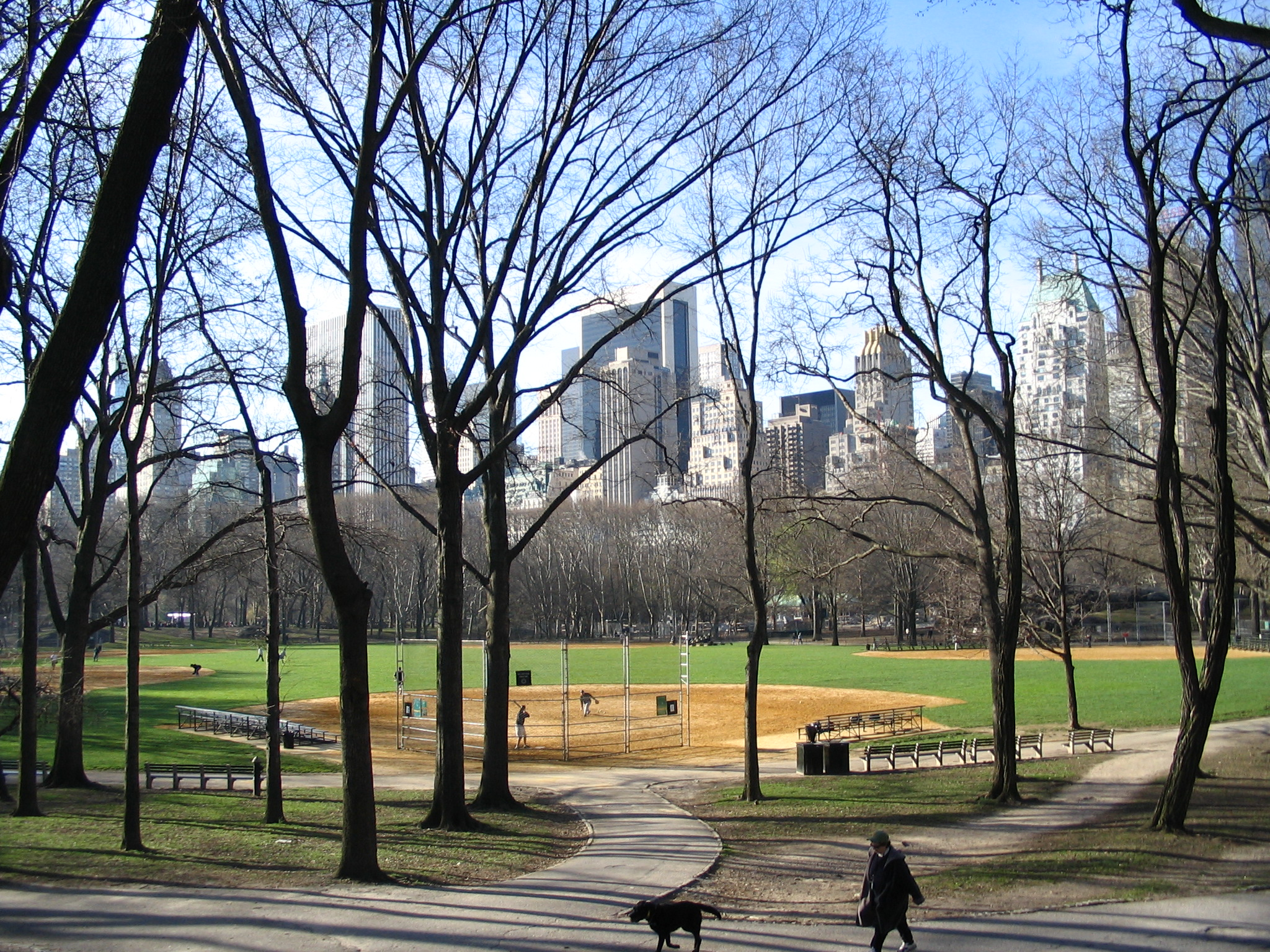 Central Park